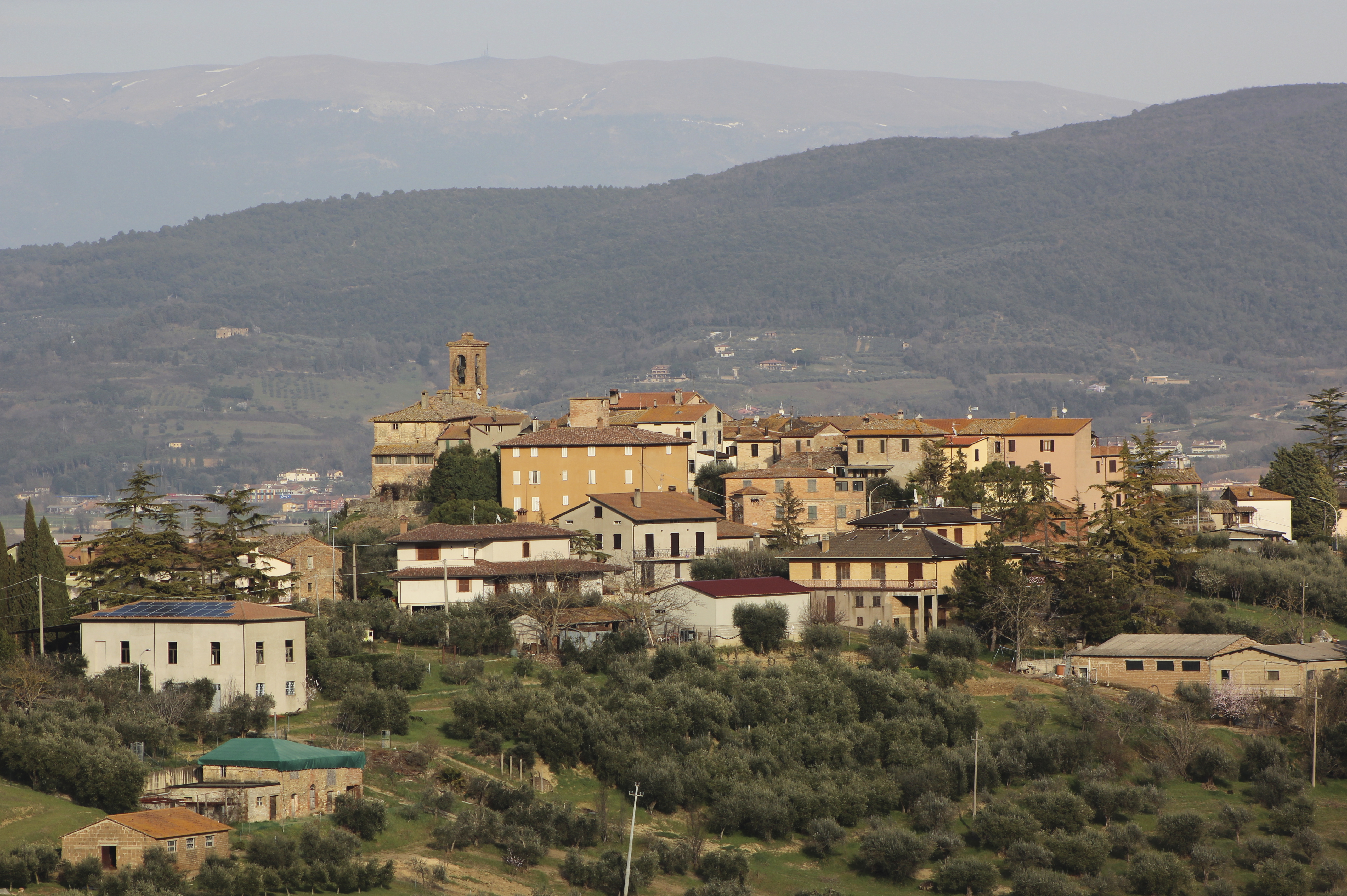 Castello delle Forme, hamlet of Marsciano, Province of Perugia, Umbria, Italy